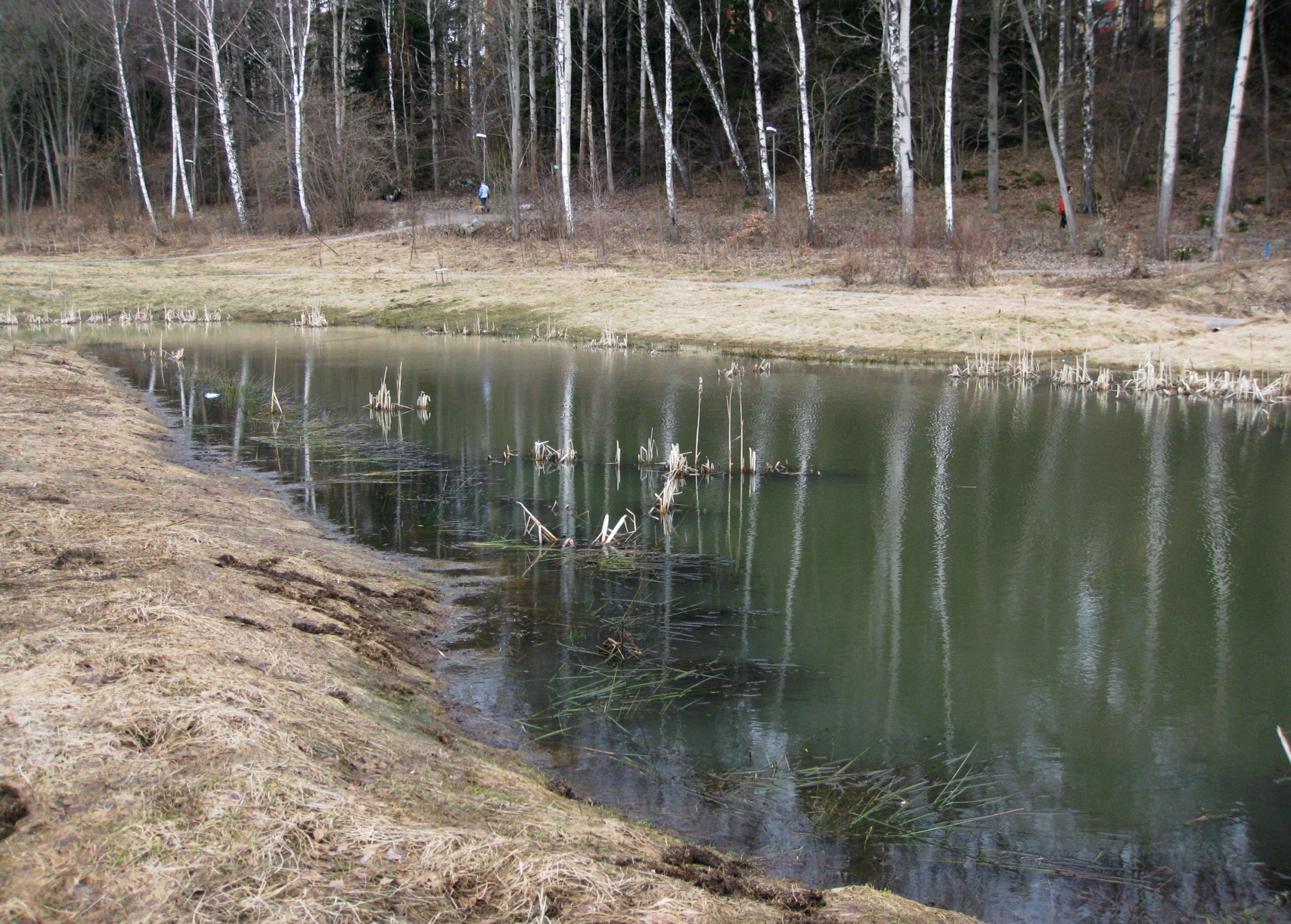 Kräppladiket, Rågsved, southern Stockholm, Sweden.